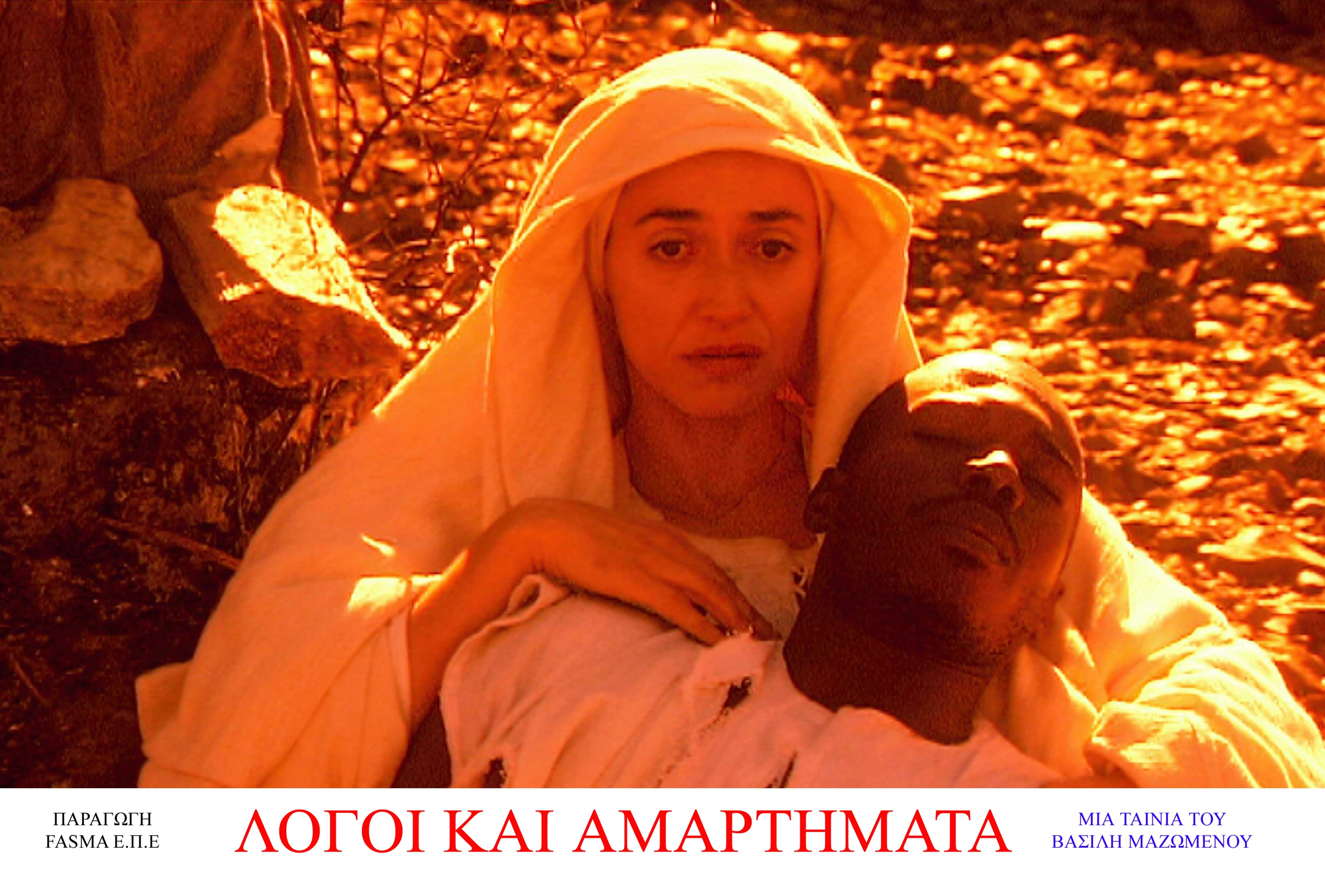 Vassilis Mazomenos movie "Words and Sins".